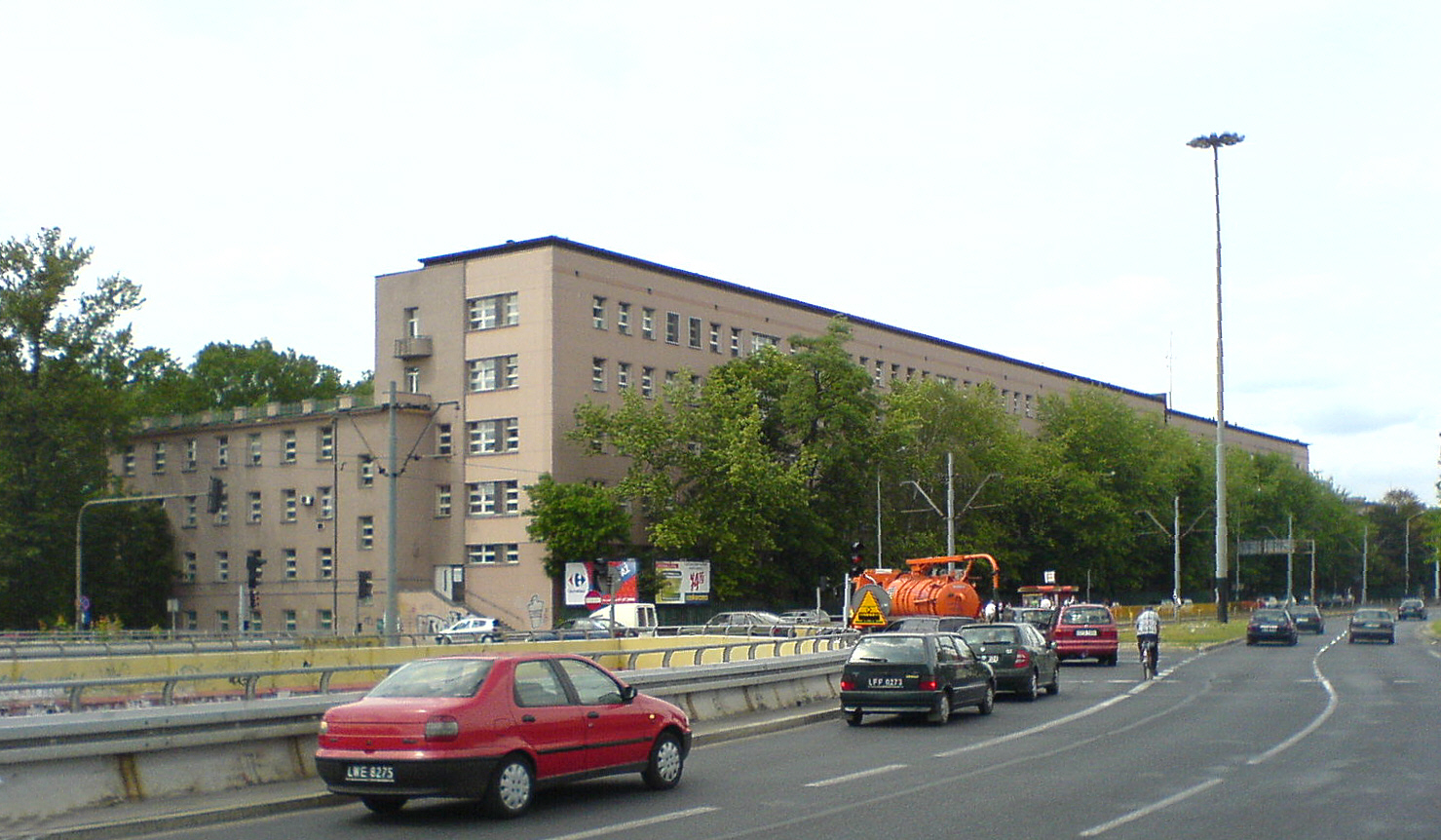 Łódź, Poland: Medical University Clinic No 2 (former Military Hospital) - south-east view